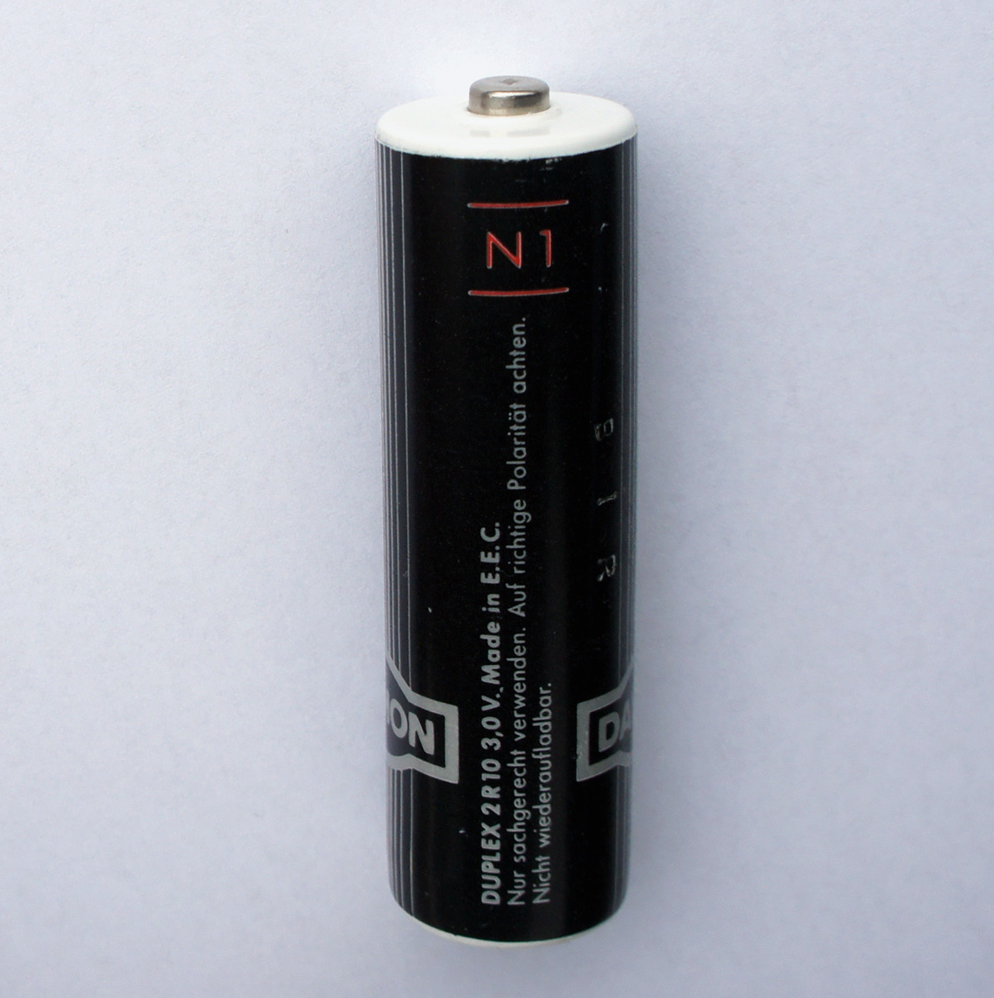 Stabbattery Duplex 2R10